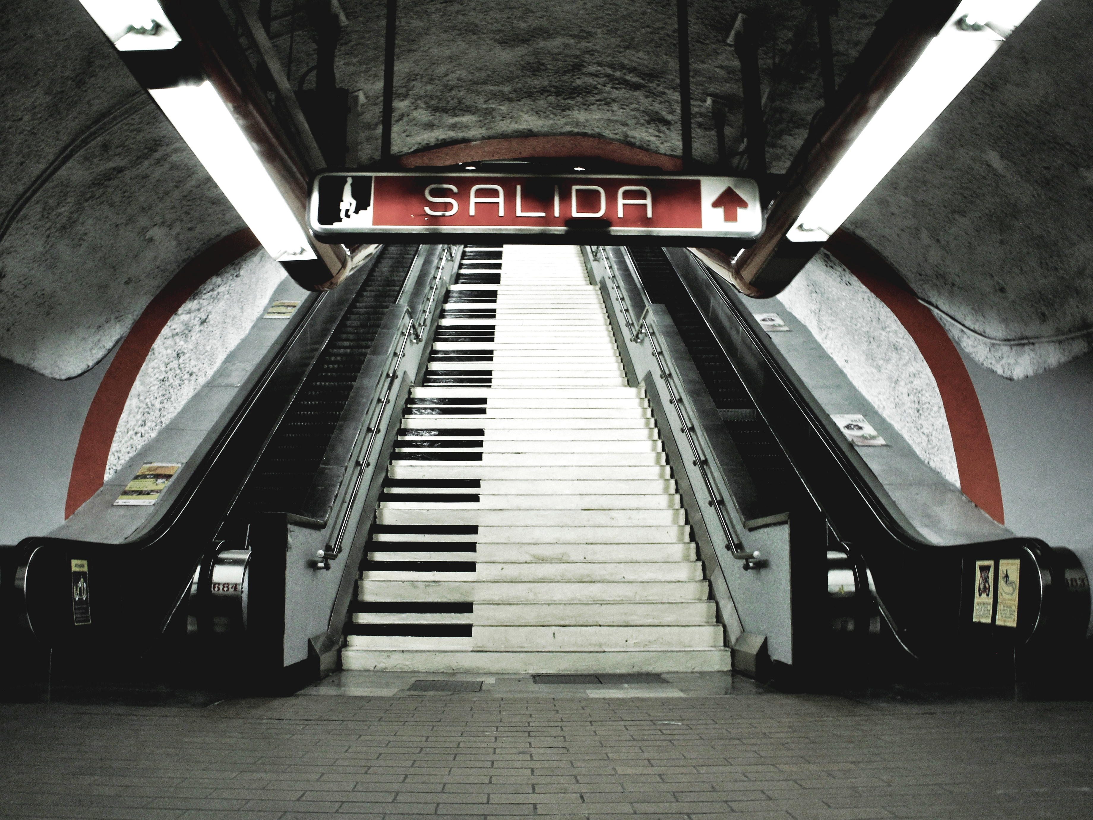 The stairs were adapted to look like piano keys.